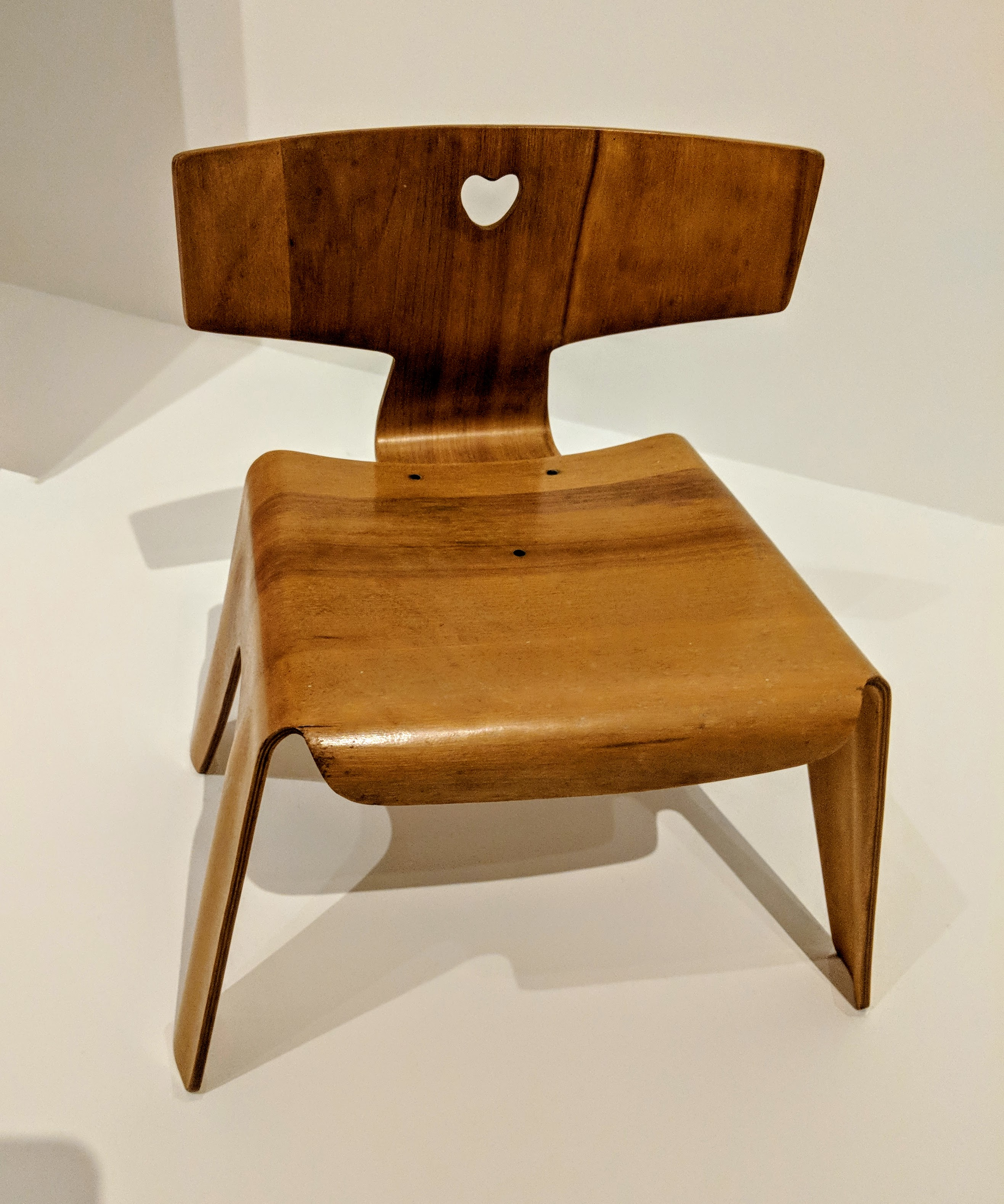 A molded plywood stacking chair for children, designed by Charles and Ray Eames in 1945. On display at the Oakland Museum of California. Photo by Jim Heaphy.